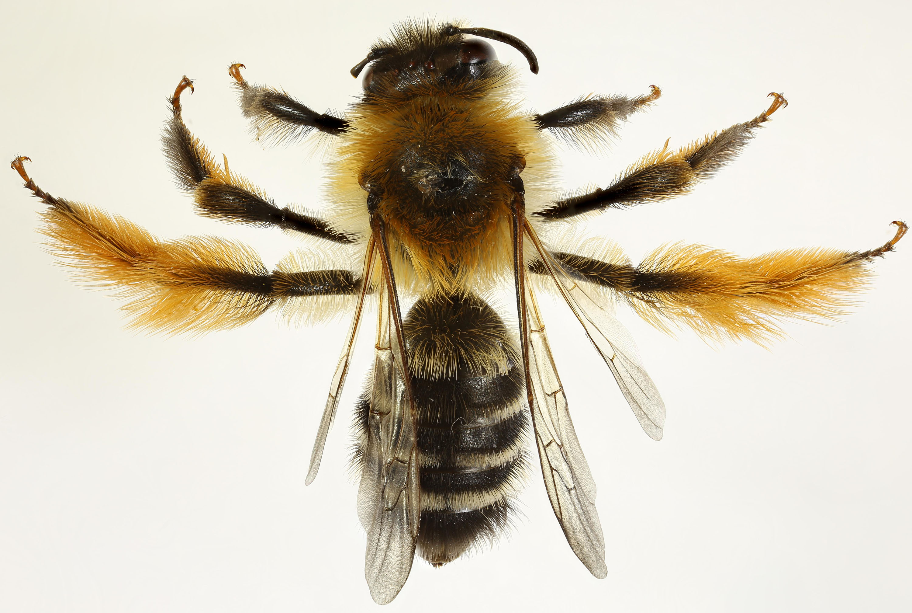 Dasypoda hirtipes female, Dyffryn, North Wales, July 2016